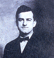 Courtesy of St. Louis Universoty